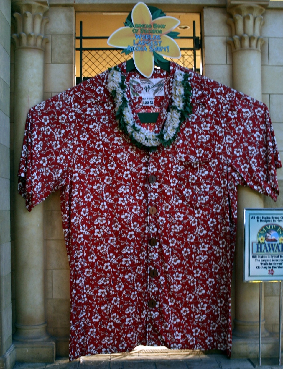 Cropped and sharpened from original